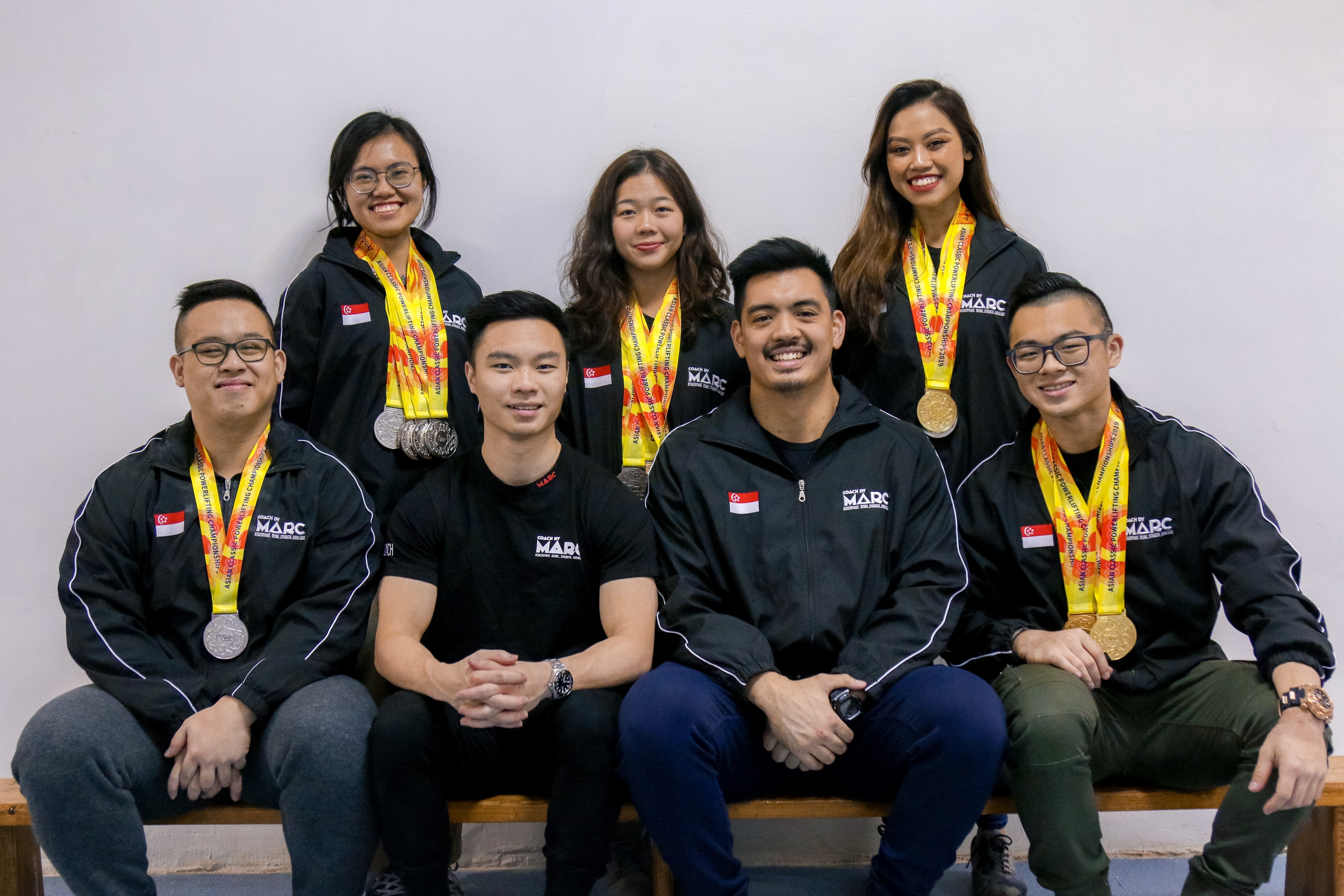 CoachbyMARC's medal haul in Almaty